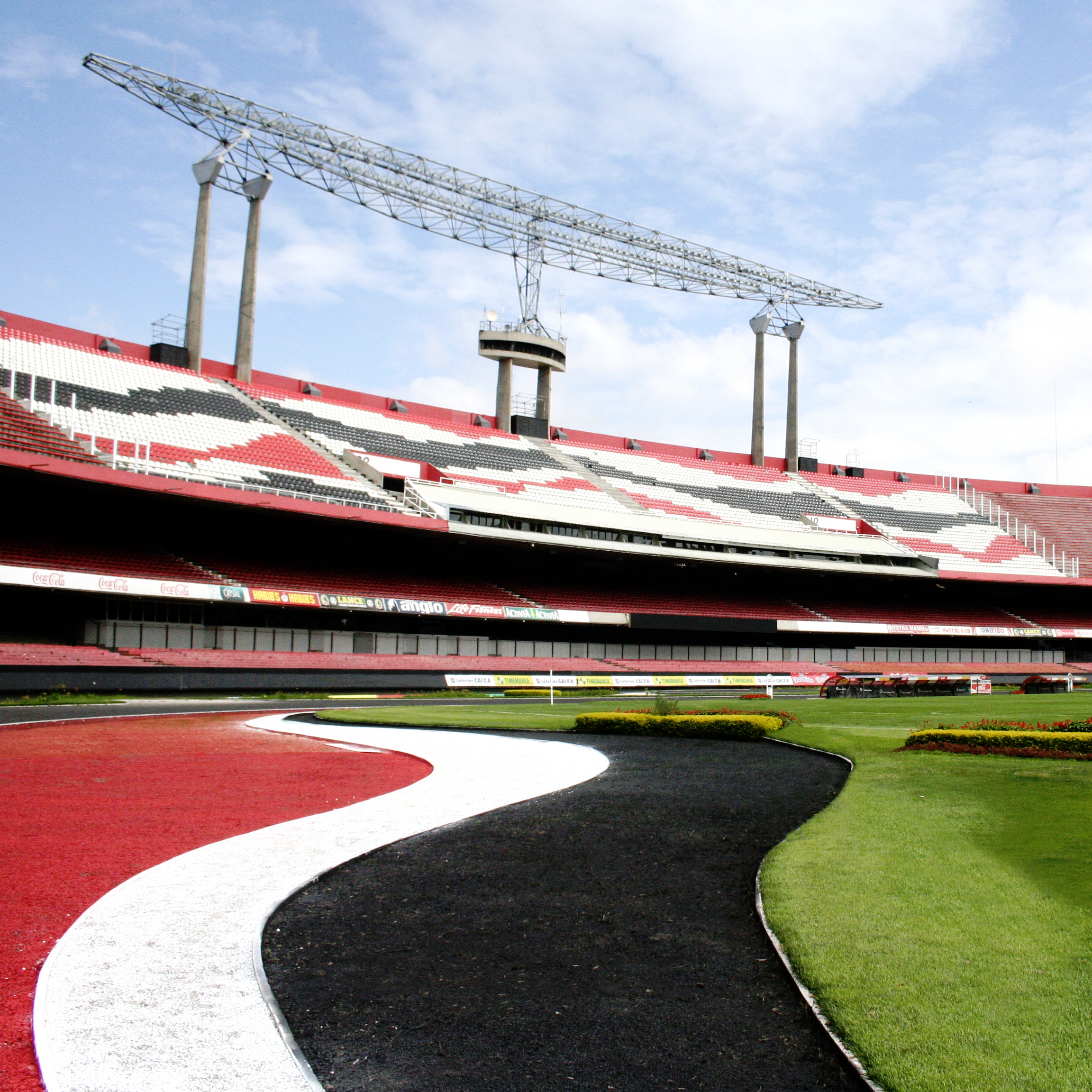 inside photo of the Cícero Pompeu de Toledo stadium, known as Morumbi.